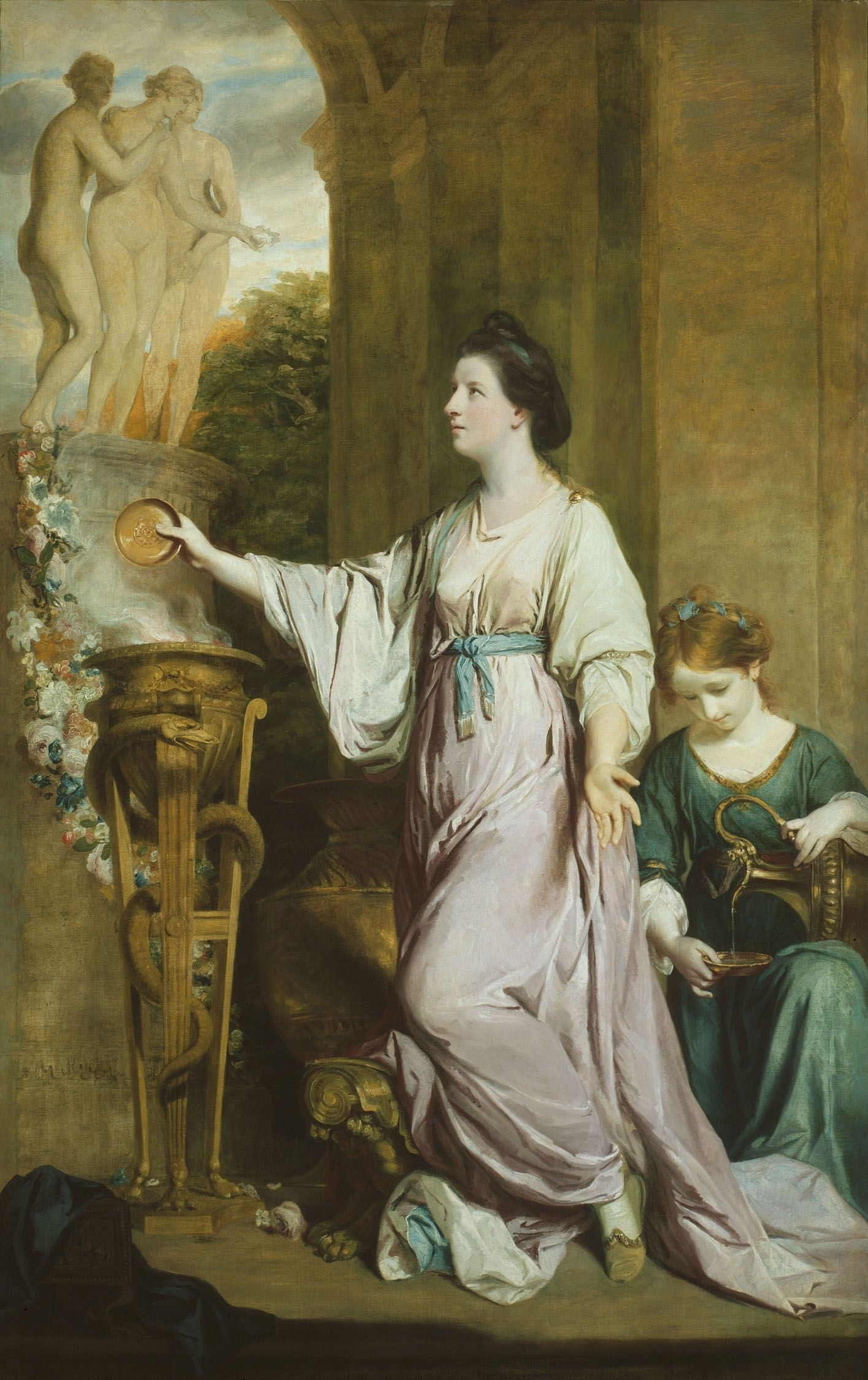 Lady Sarah Lennox (1745-1826), daughter of the 2nd Duke of Richmond (and great-granddaughter of Charles II) had married Charles Bunbury shortly before this portrait was painted. It is an allegorical portrait in the "Grand manner" showing her offering a sacrifice to the the Three Graces.